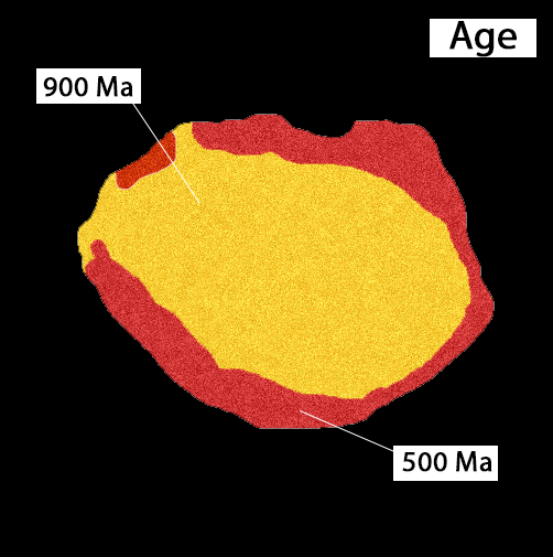 Illustration showing age map of a monazite grain. Brighter colour corresponds to older age. Edited after Williams, M. L., Jercinovic, M. J., & Terry, M. P. (1999). Age mapping and dating of monazite on the electron microprobe: Deconvoluting multistage tectonic histories. Geology, 27(11), 1023-1026.